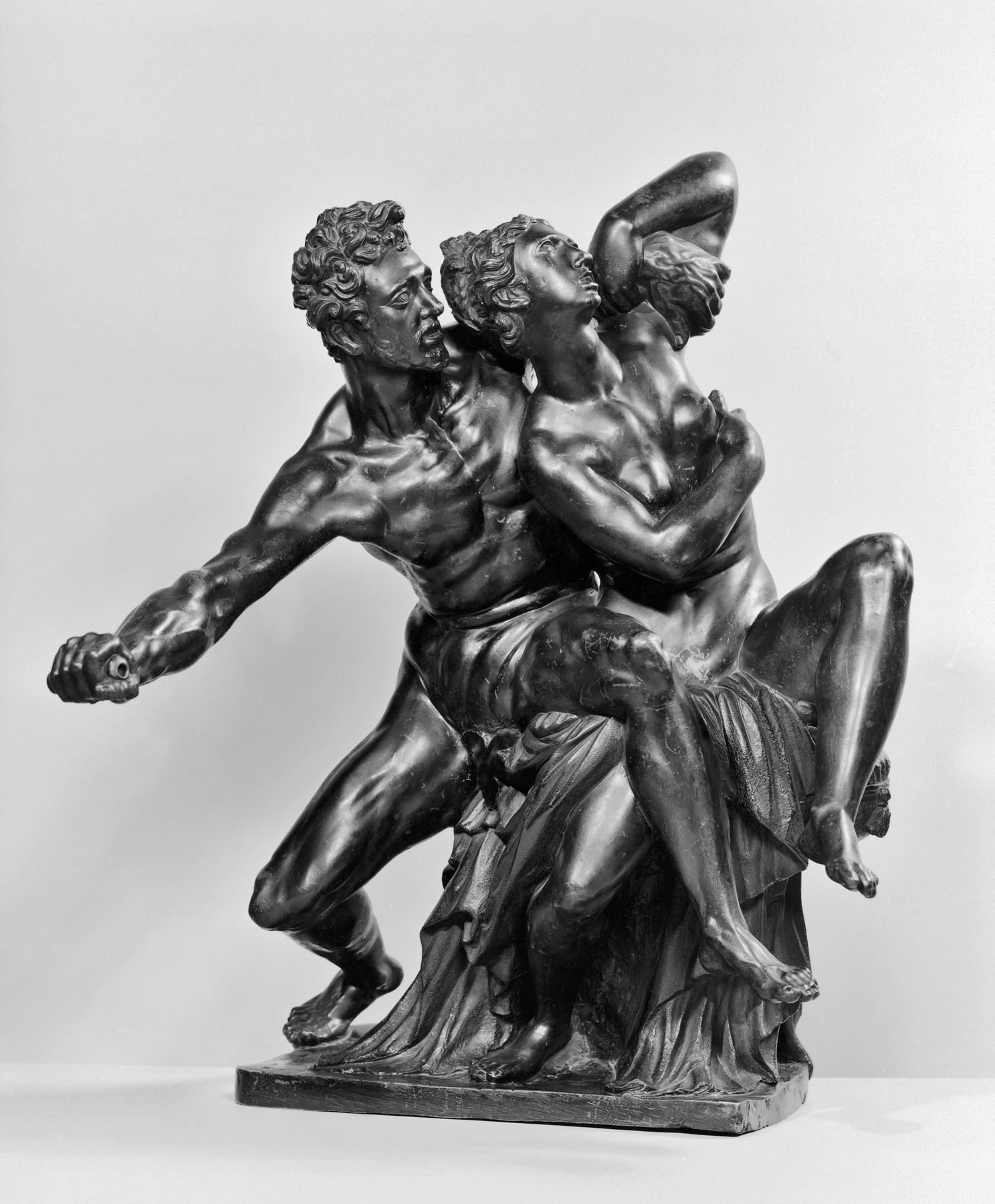 The rape of Lucretia, a noble Roman matron known for her beauty and virtue, by the Etruscan prince Tarquinius (here, originally wielding a knife), was recounted by Roman authors as a pivotal event in their early history. After the rape, Lucretia committed suicide to save her father and brother from dishonor. As a result, outraged Romans overthrew their Etruscan rulers. Hubert Gerhard was trained by his fellow Netherlander Giovanni Bologna in Florence but worked primarily for courts in Germany. The dramatic tension, vigorous muscularity, compositional complexities, and sensuality of Gerhard's style are distilled in the electric torsion of the male torso, from which the compositional rhythms flow. Most of Gerhard's bronzes are large, and none of the smaller ones associated with him is signed, so the attribution is hard to clarify. There are other fine casts of this popular piece in Cleveland and New York.